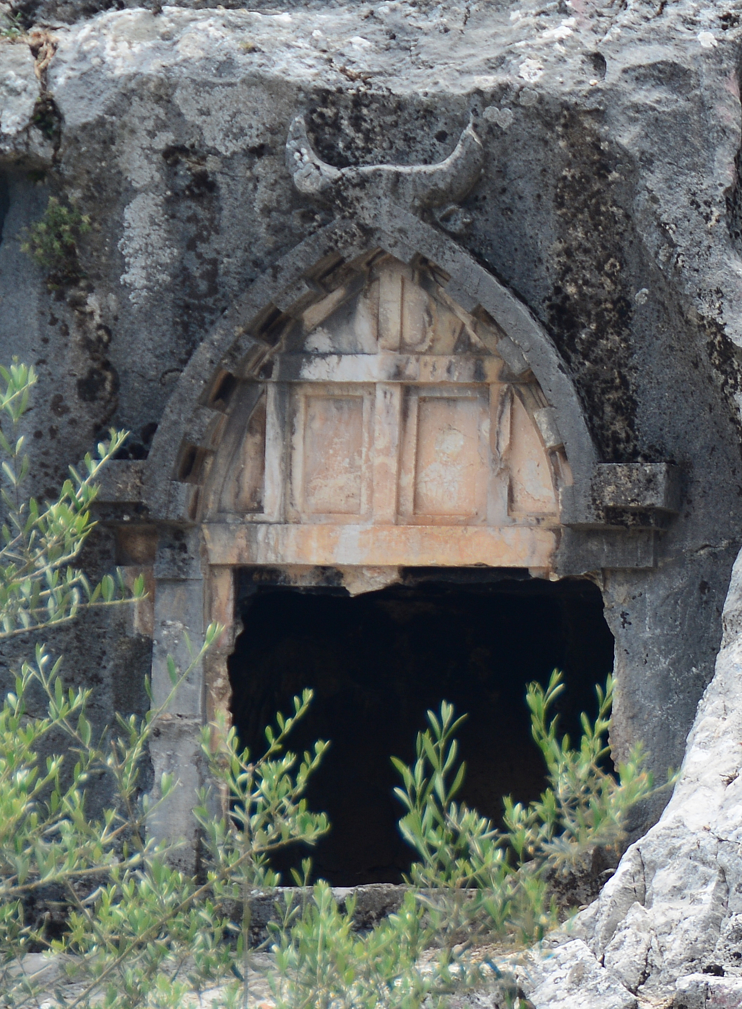 Pinara Ancient Lycian City Fethiye Turkey several Rock Tombs detail